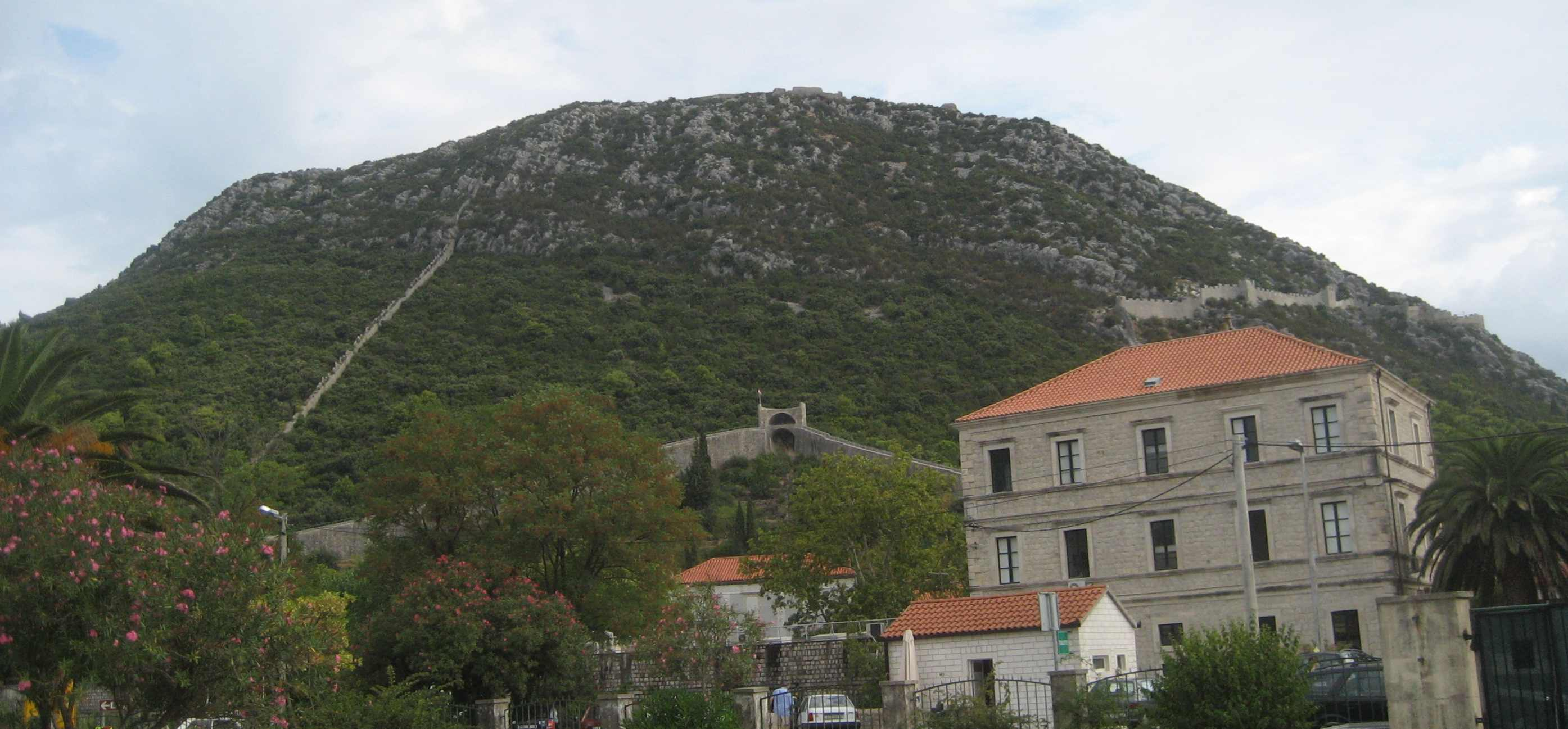 Ston Citywalls, Croatia